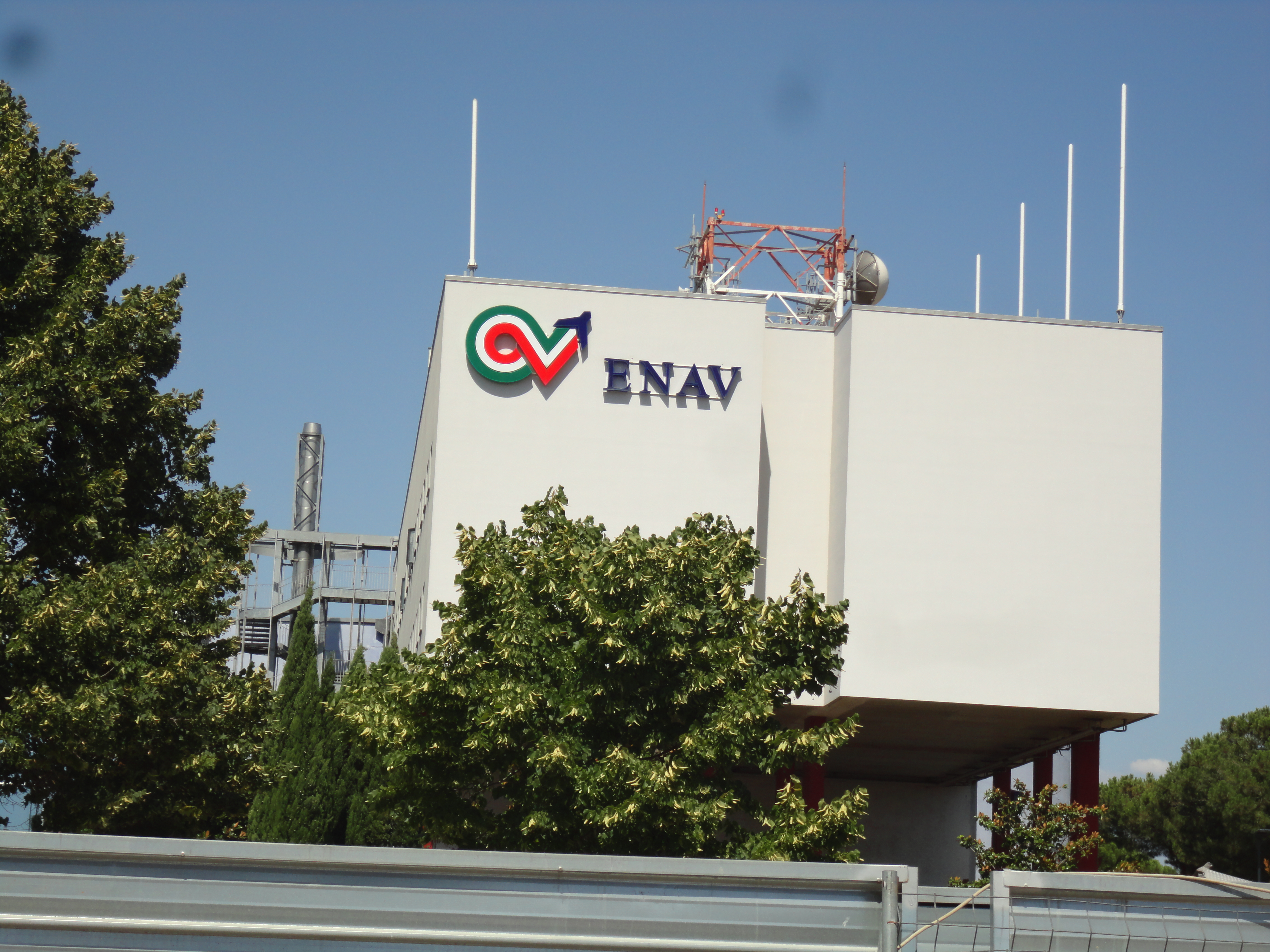 ENAV ACC (Rome)